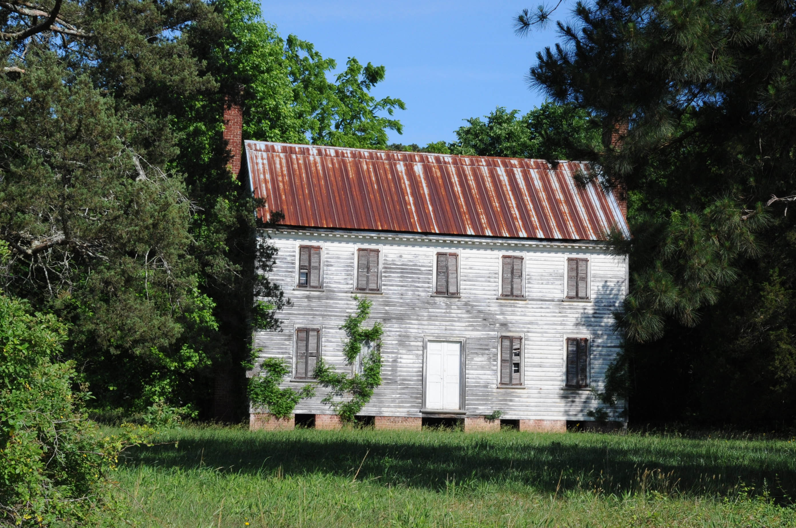 AKA BOOTH HOUSE; BUILT IN 1836 BUT NOW APPEARS ABANDONED